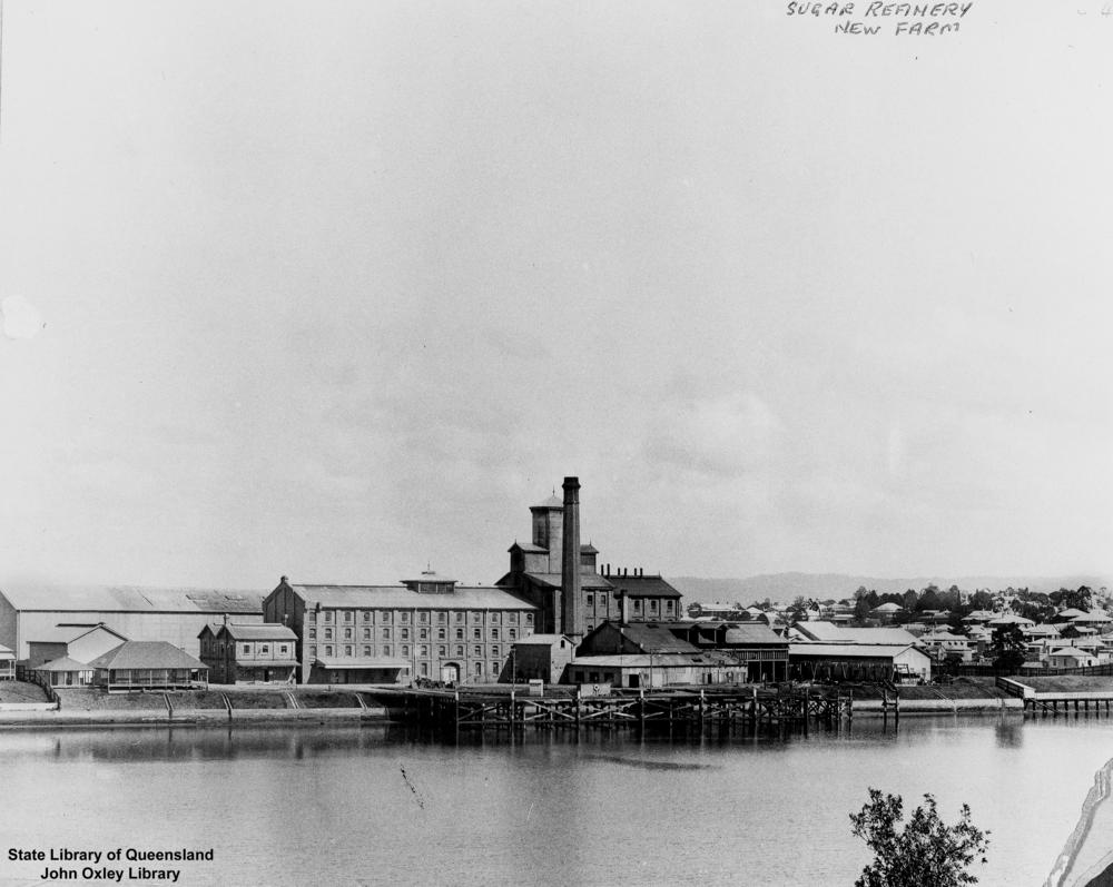 Colonial Sugar Refinery, New Farm, Brisbane, ca. 1902 The Colonial Sugar Refinery on the bank of the Brisbane River at New Farm, ca. 1902.